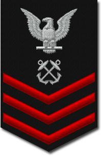 US Navy Petty Officer First Class shoulder patch rate insignia